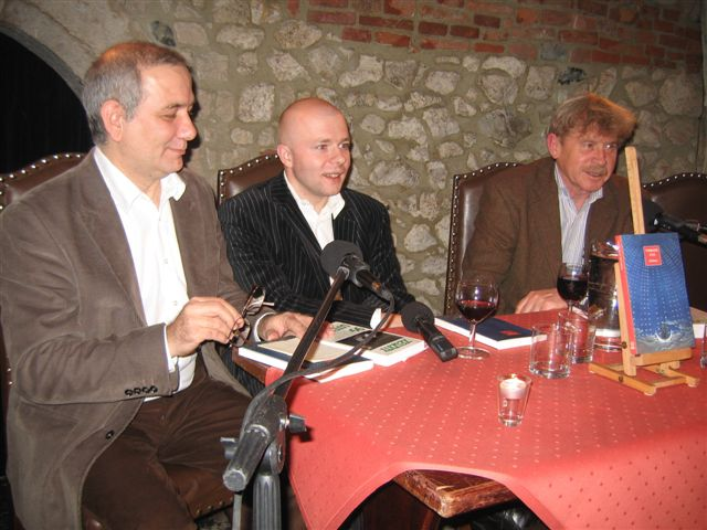 Tomasz Fiałkowski (b. 1955), Polish journalist, Tomasz Cyz (b. 1977), Polish music writer and publicist, and Bogdan Tosza (b. 1952), Polish theatre director